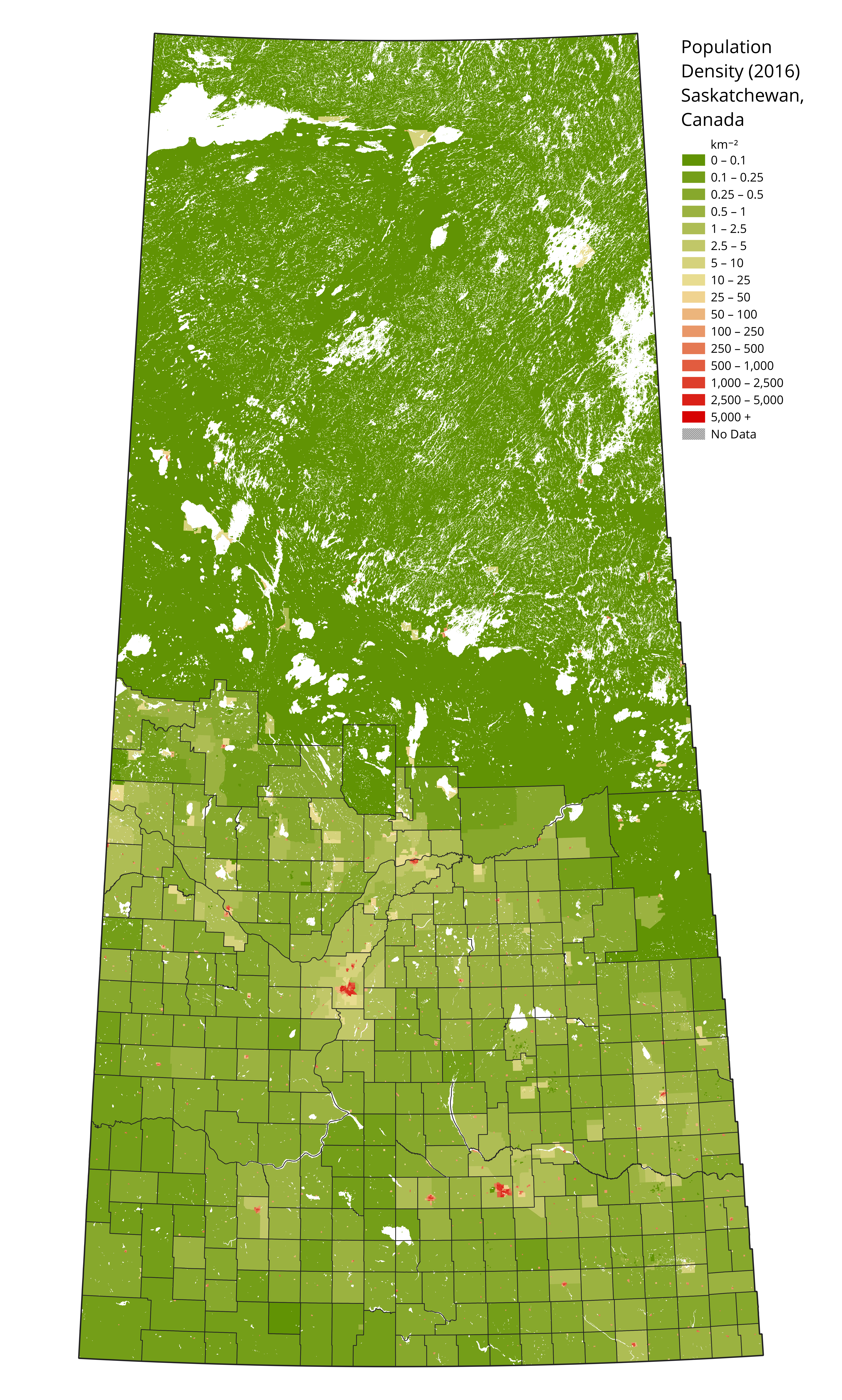 Population density map of Saskatchewan, Canada. Boundary open data and final counts from Canadian 2016 Census accessed on April 22 2018. Waterbodies from WWF HydroLAKES database.